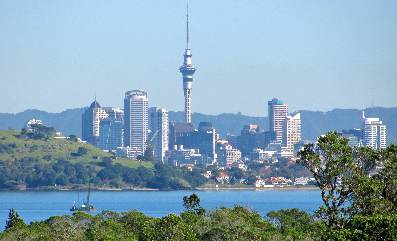 View of Auckland CBD from Rangitoto in June 2010.